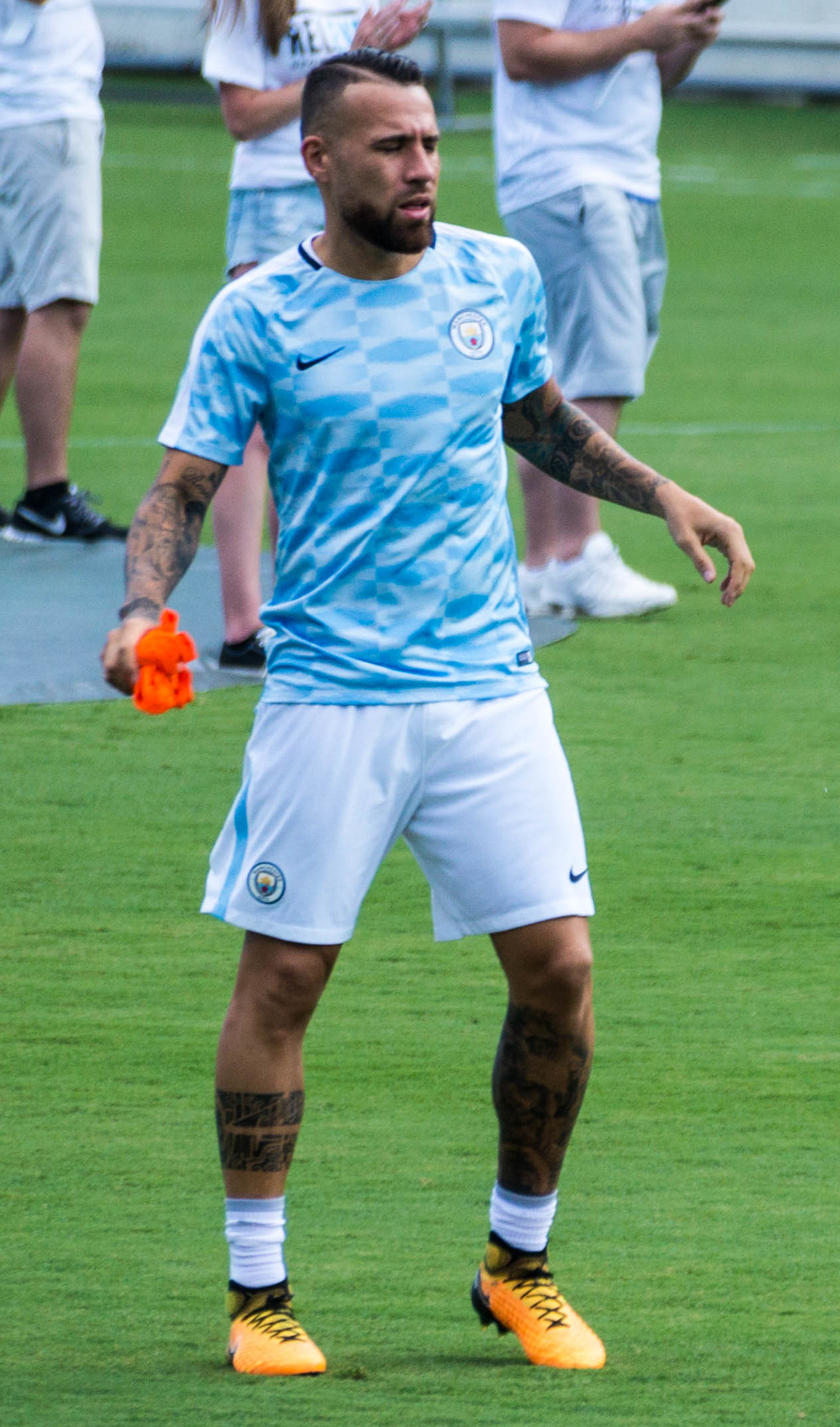 Manchester City vs Tottenham Hotspur at Nissan Stadium in Nashville, TN